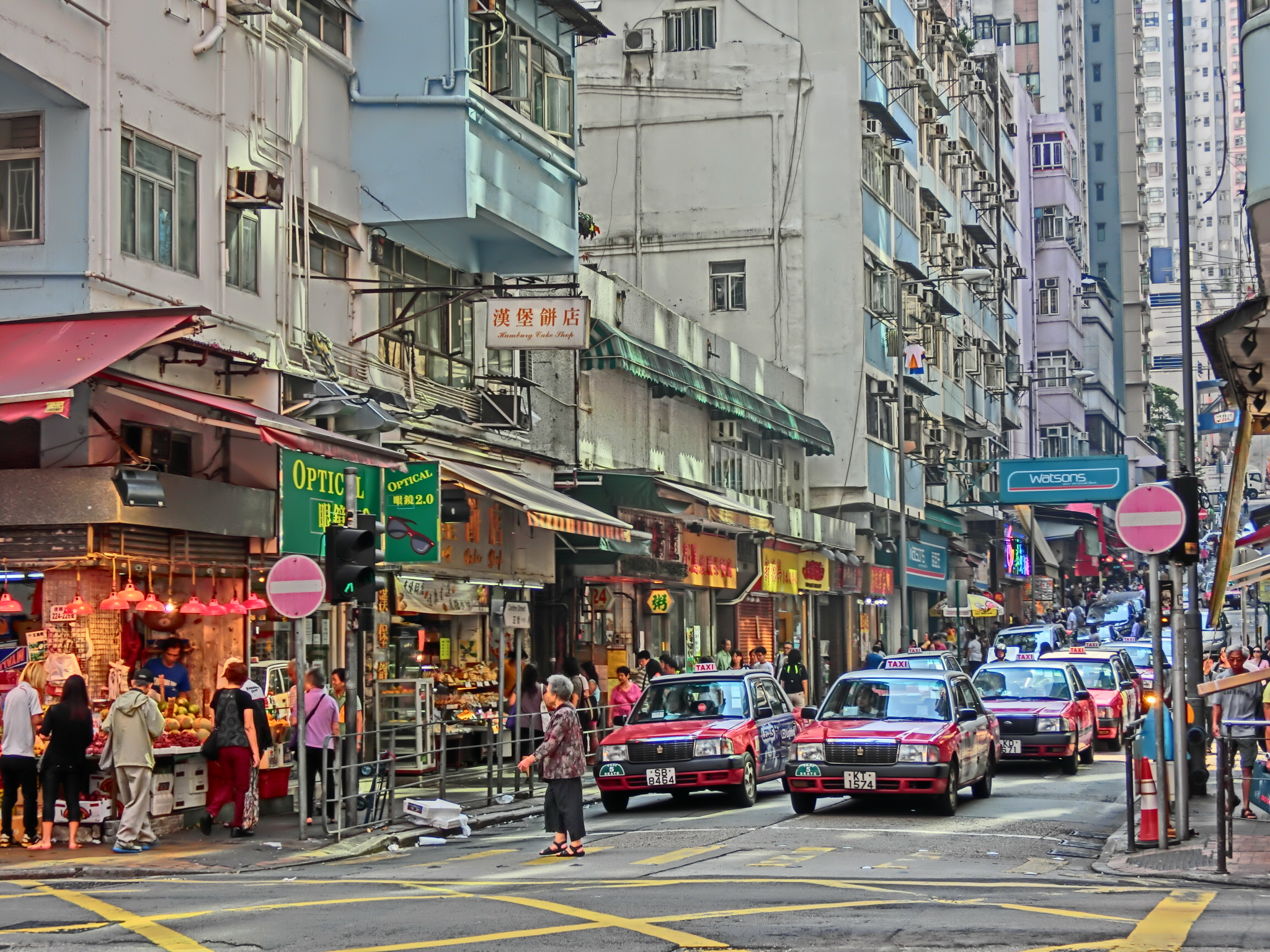 西環 正街, Centre Street, Des Voeux Road West, Sai Ying Pun, Hong Kong